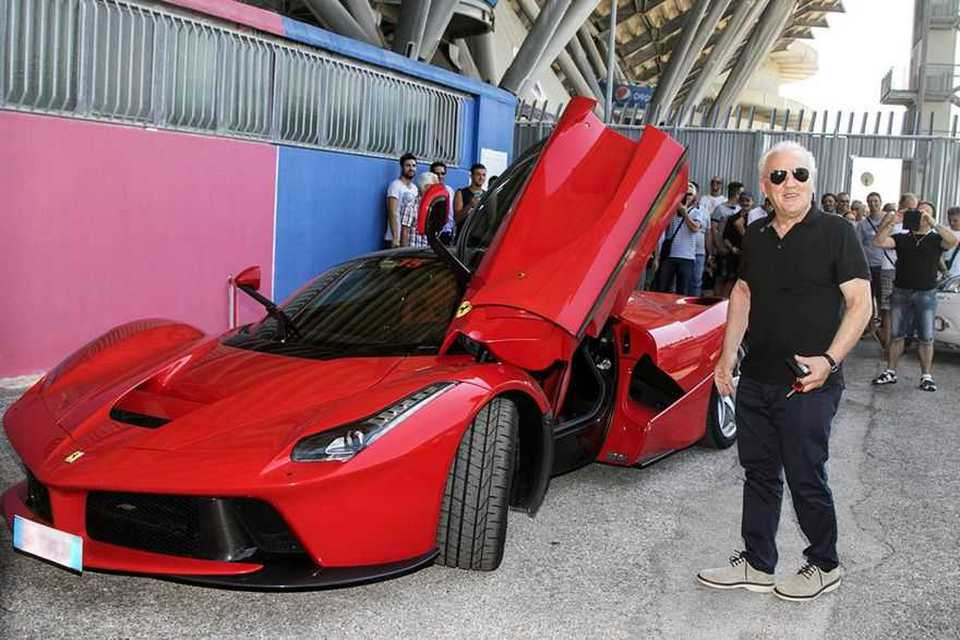 San Benedetto del Tronto, Franco Fedeli, The president of S.S. Sambenedettese Calcio, at the company's headquarters, located in the offices of the Riviera delle Palme Stadium.